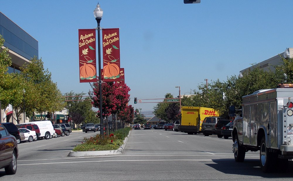 Downtown San Carlos. The perspective is northeast on San Carlos Avenue, facing towards El Camino Real and the Caltrain station. Photographed on September 29, 2005 by user Coolcaesar.